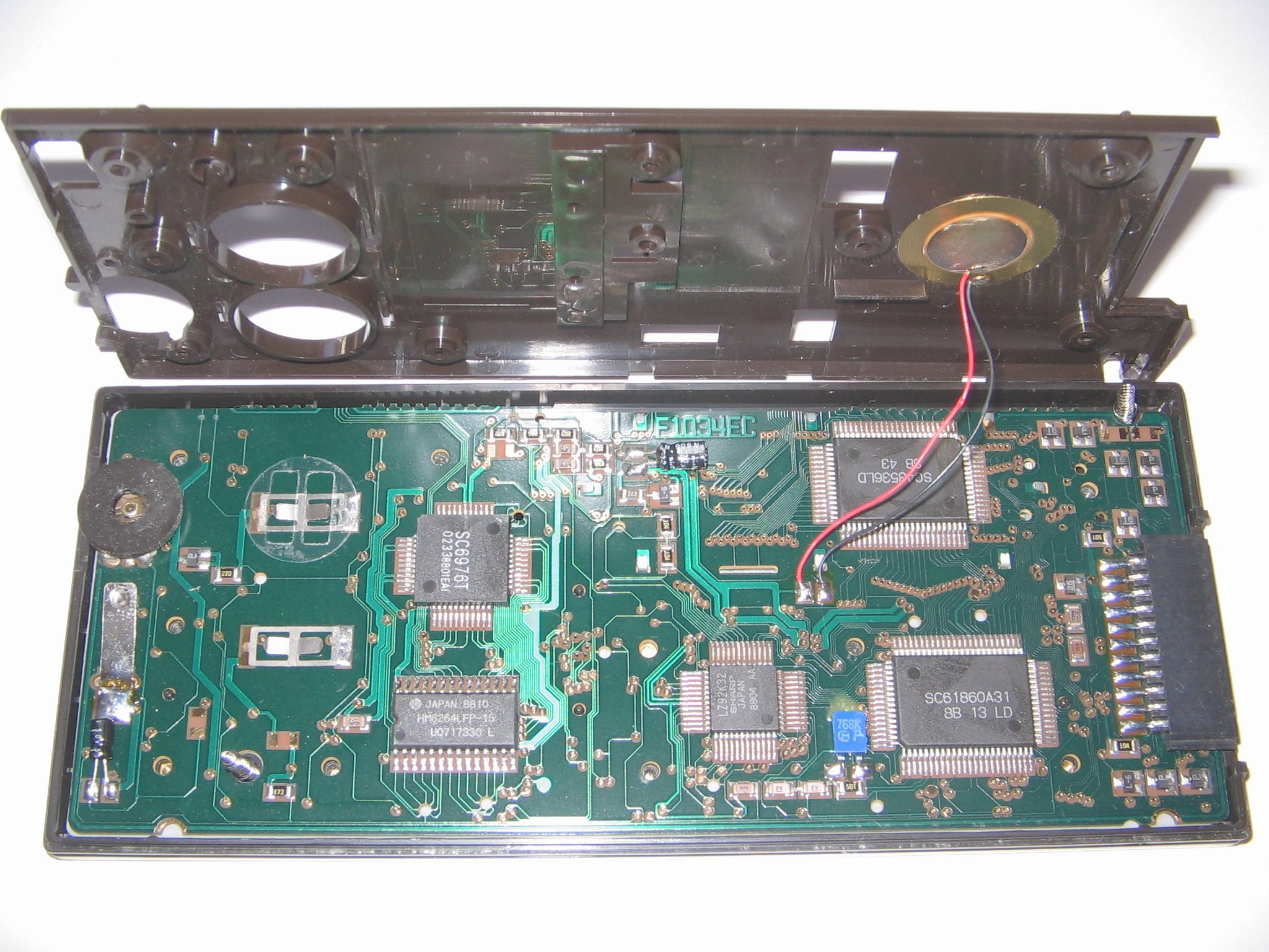 a Sharp PC-1403 open